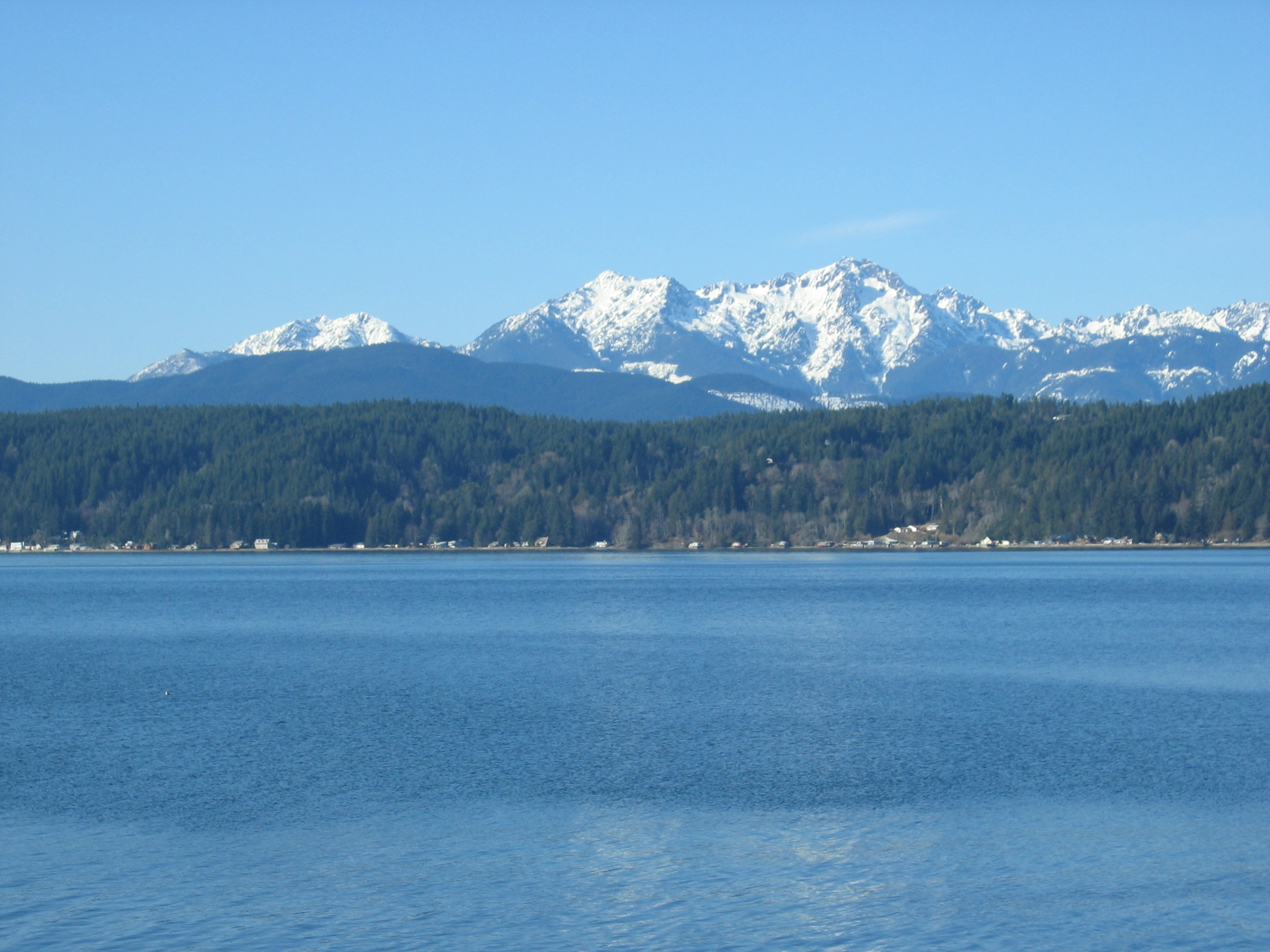 My favorites, "The Brothers" peaks in Olympic National Park, very impressive over Hood Canal.